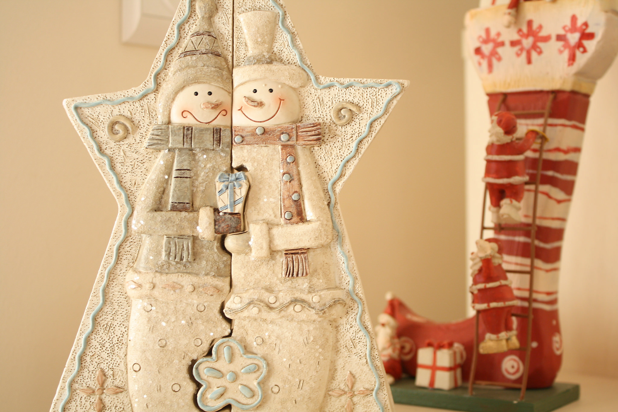 Christmas decorations, Germany